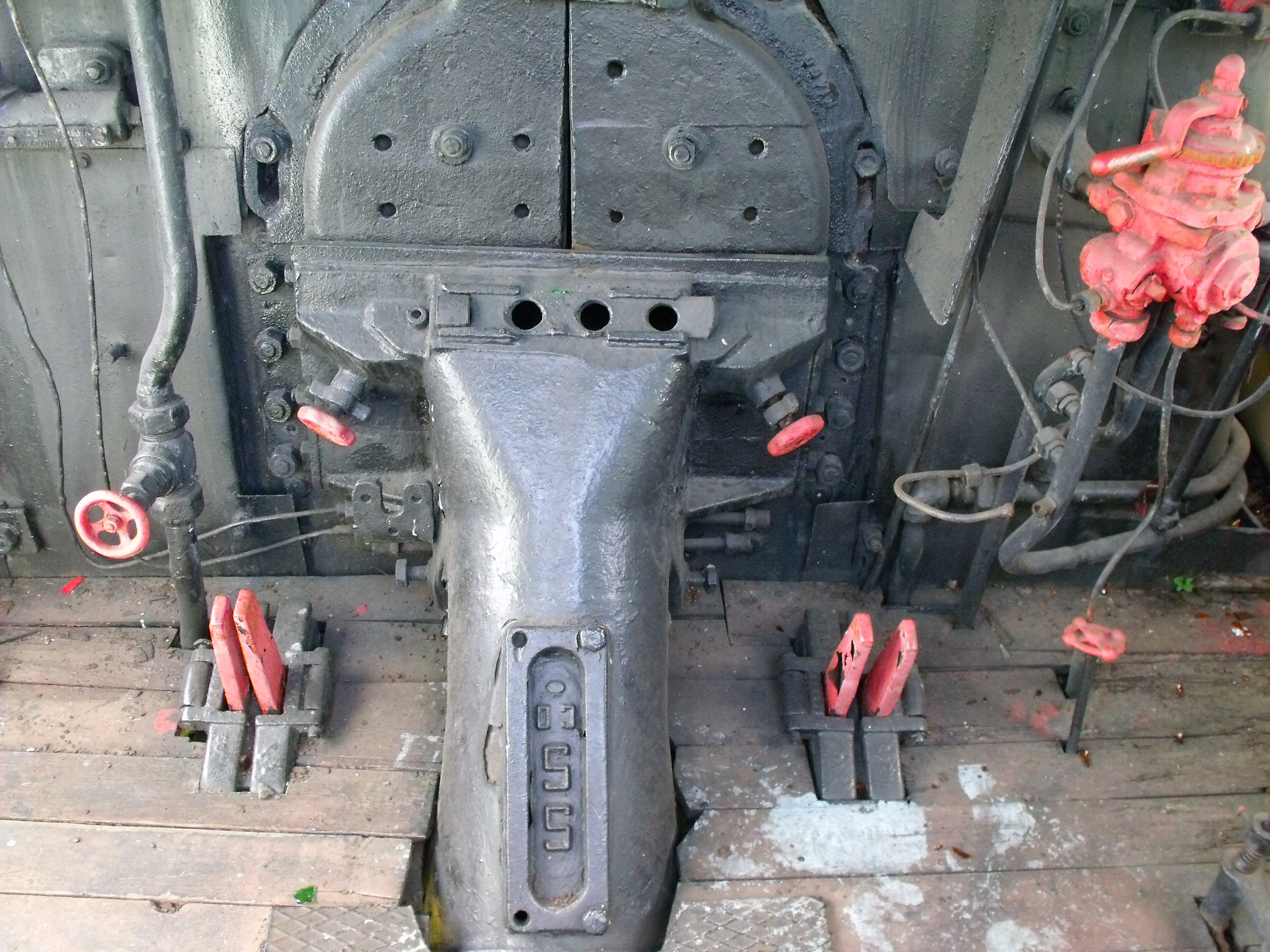 Mechanical stoker of Ty246